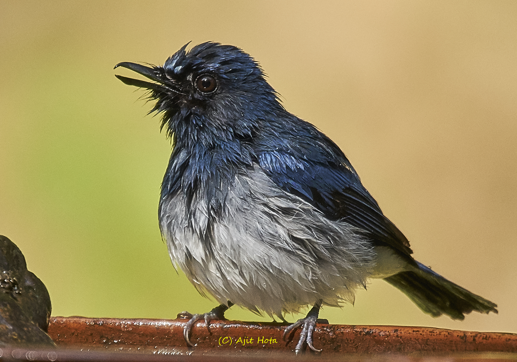 The white-bellied blue flycatcher after a bath